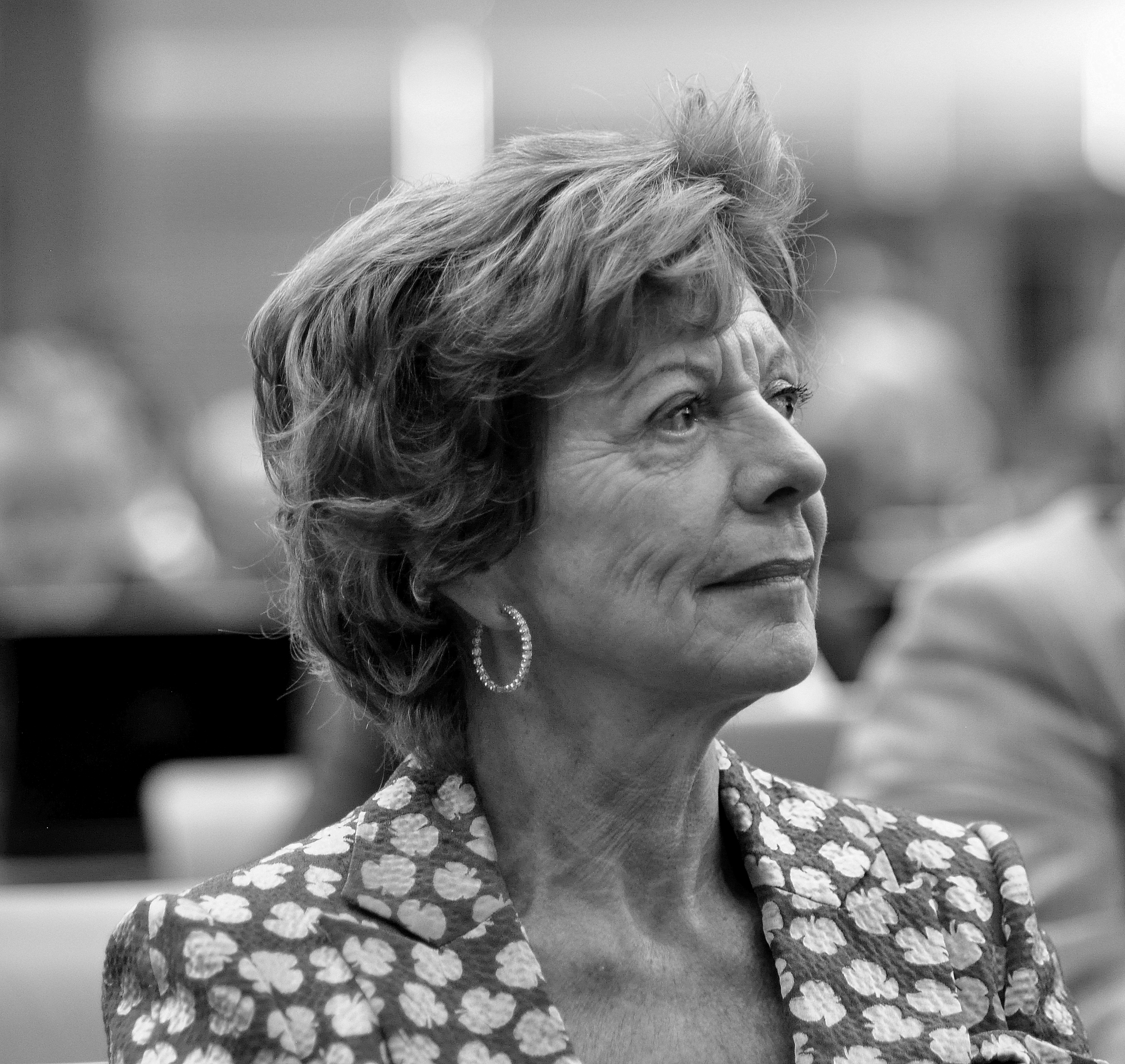 European Commissioner Neelie Kroes, in Vilnius, Sept. 14, 2010 (black/white)